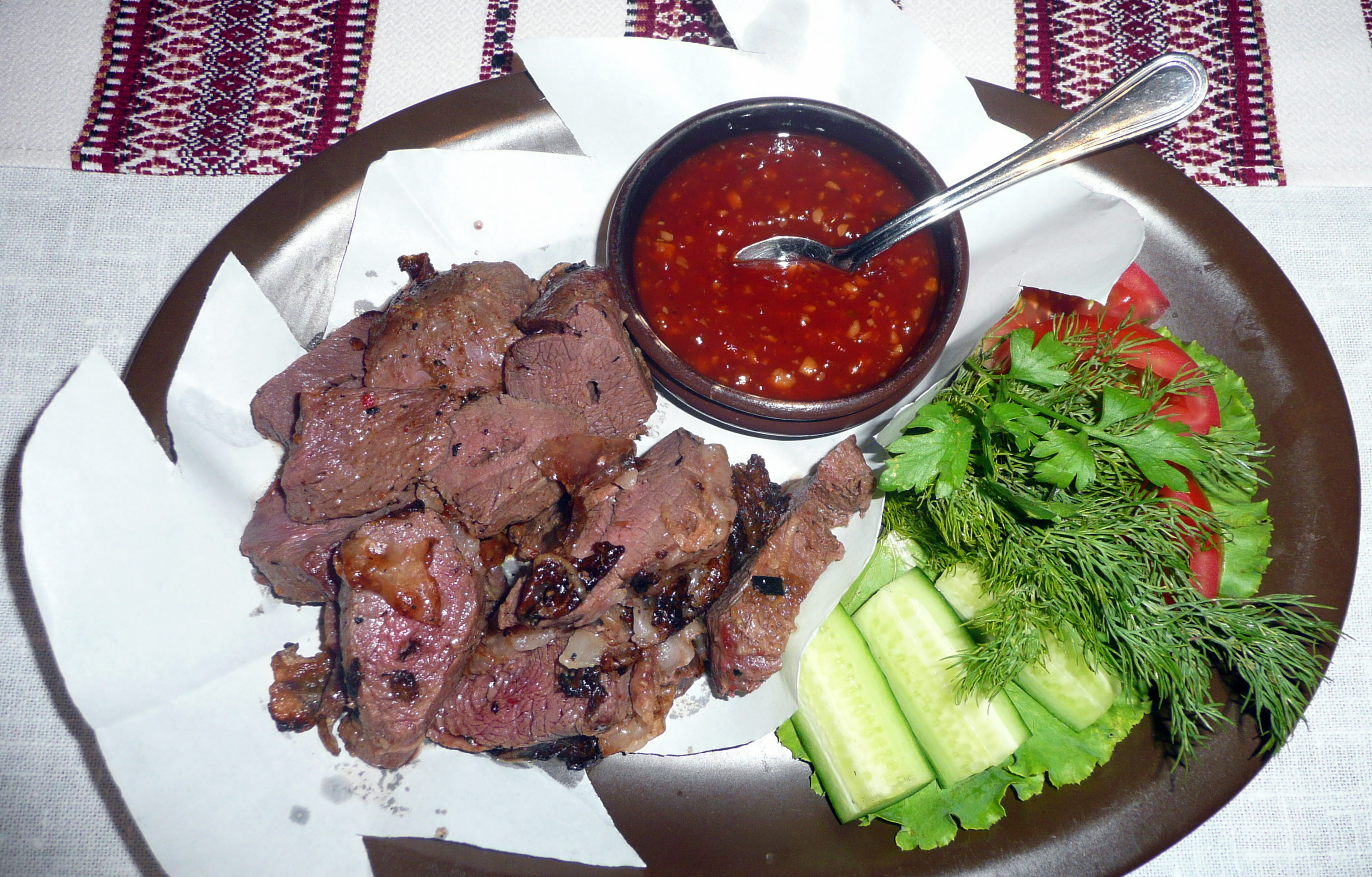 Cossack Shashlik in the Korchma - Restaurant of Traditional Ukrainian Cuisine in Zaporizhia